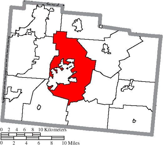 Map of the municipal and township boundaries of Greene County, Ohio, United States, as of the 2000 census, with the location of Xenia Township highlighted. Township borders are shown only in unincorporated areas in order to differentiate incorporated and unincorporated areas more clearly.